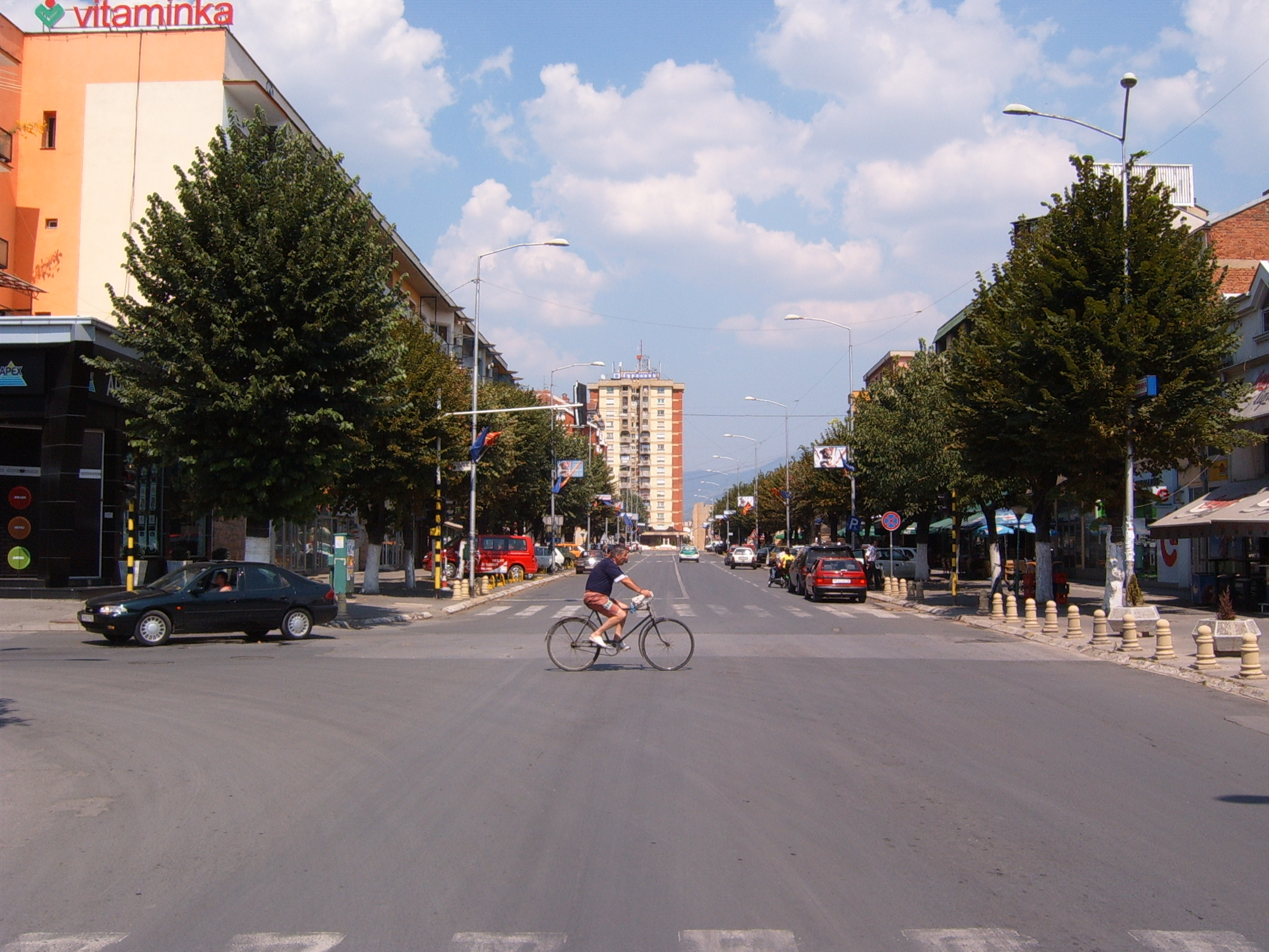 A Street in Prilep